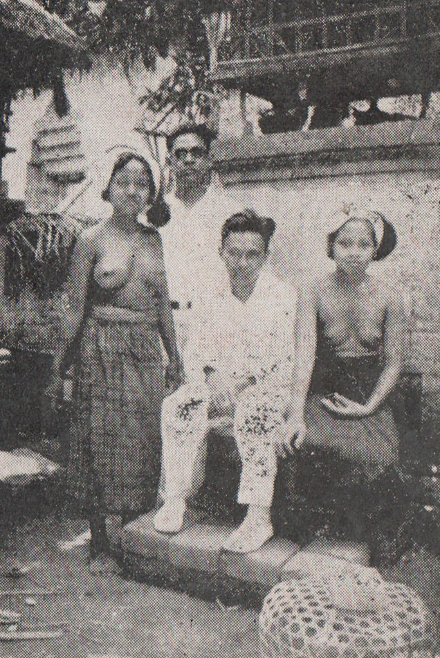 Author Soe Lie Piet and unidentified man with Balinese women. Melantjong ka Bali (1935), np